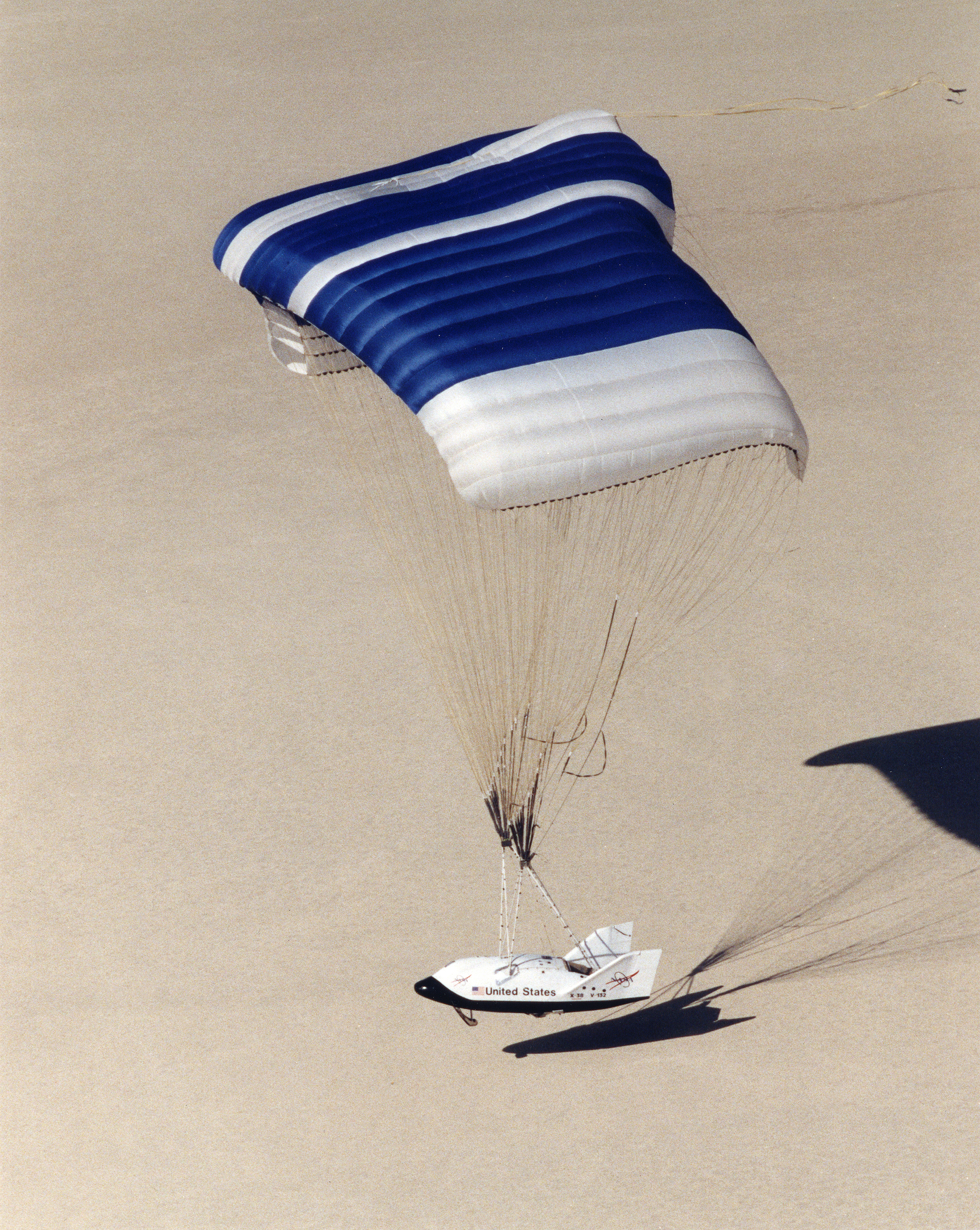 The X-38, a research vehicle built to help develop technology for an emergency Crew Return Vehicle from the International Space Station, is seen just before touchdown on a lakebed near the Dryden Flight Research Center, Edwards California, at the end of a March 2000 test flight. The X-38 Crew Return Vehicle (CRV) research project is designed to develop the technology for a prototype emergency crew return vehicle, or lifeboat, for the International Space Station.